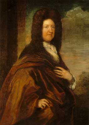 Portrait of Ralph Montagu, 1st Duke of Montagu (c.1638-1709)